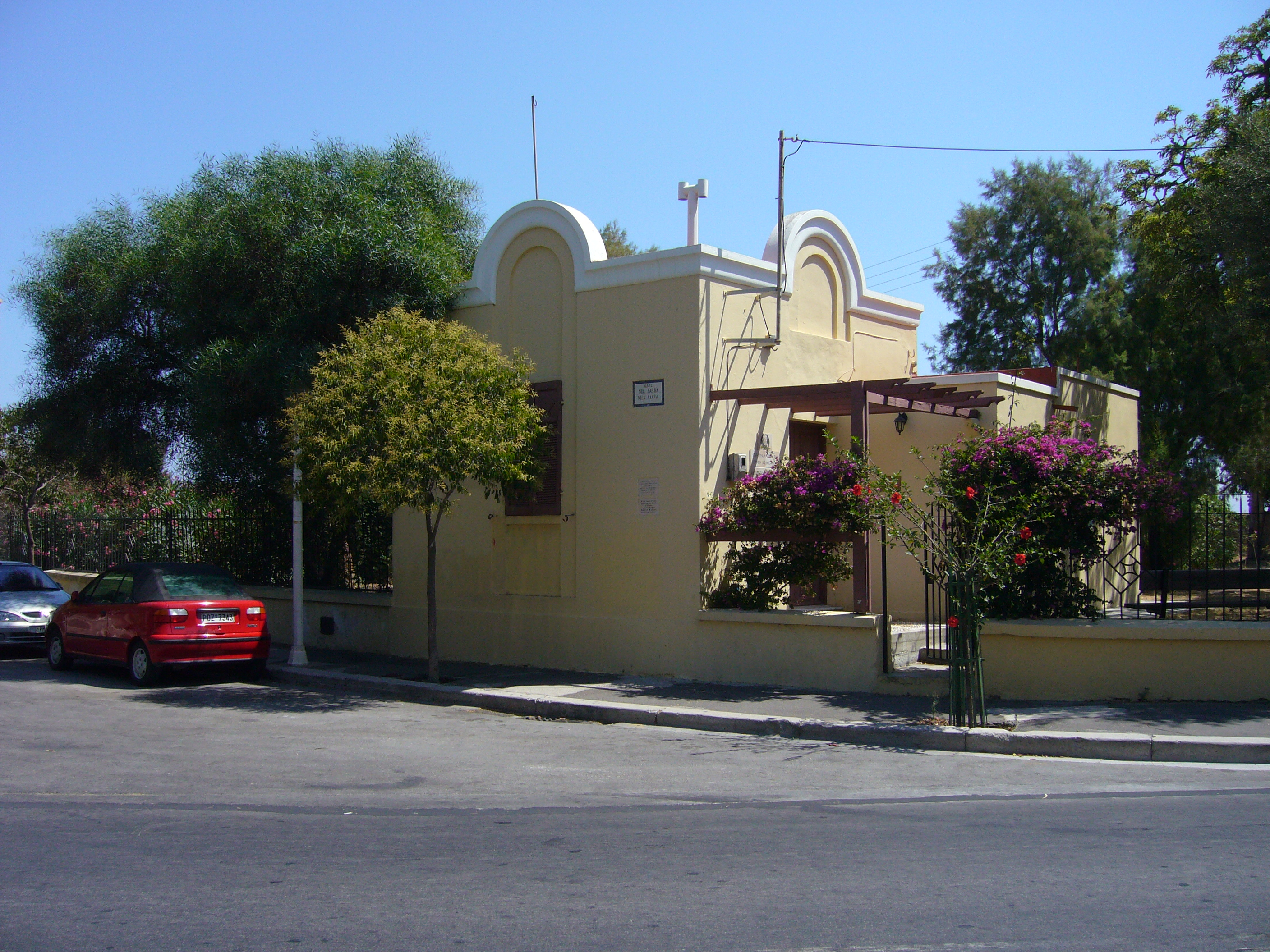 Lawrence Durrell's house (near Rhodes casino) from 20 May 1945 to 10 April 1947. The plaque on the side of the house (visible in the photo) provides the name and dates of residence.